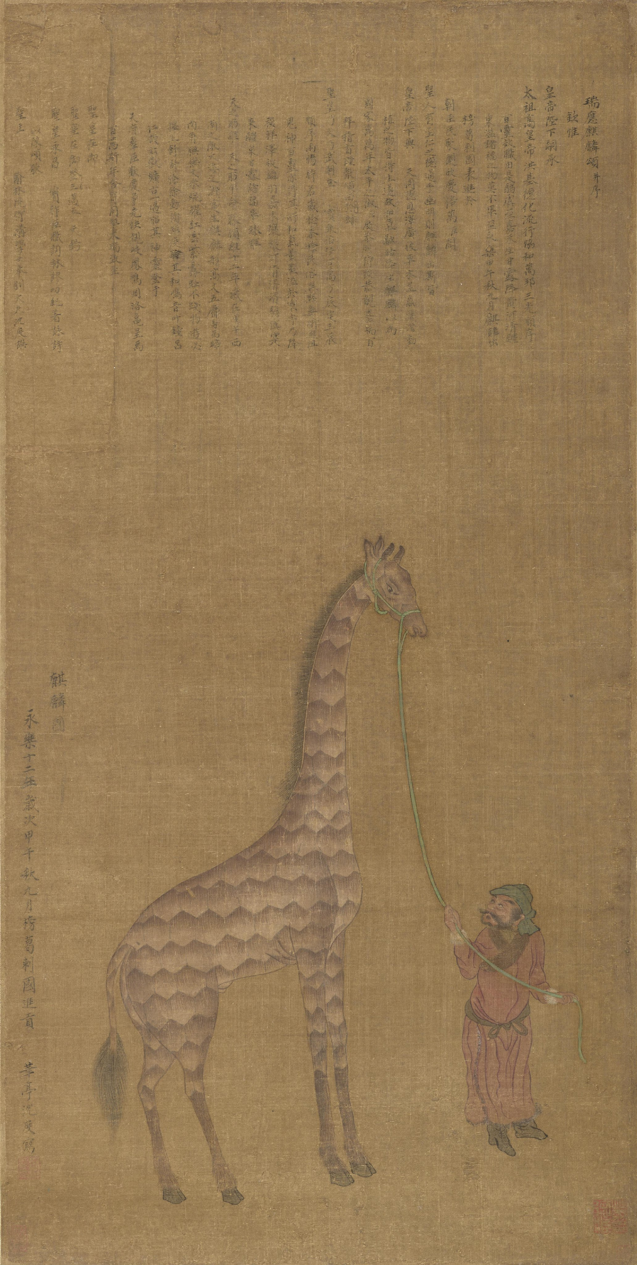 On 20 September 1414, Bengali envoys presented a tribute giraffe in the name of King Saif Al-Din Hamzah Shah of Bengal (r. 1410–12) to the Yongle Emperor of Ming China (r. 1402–24). The Yongle Emperor commissioned Shen Du to paint this giraffe. This file depicts the original painting by Shen Du.